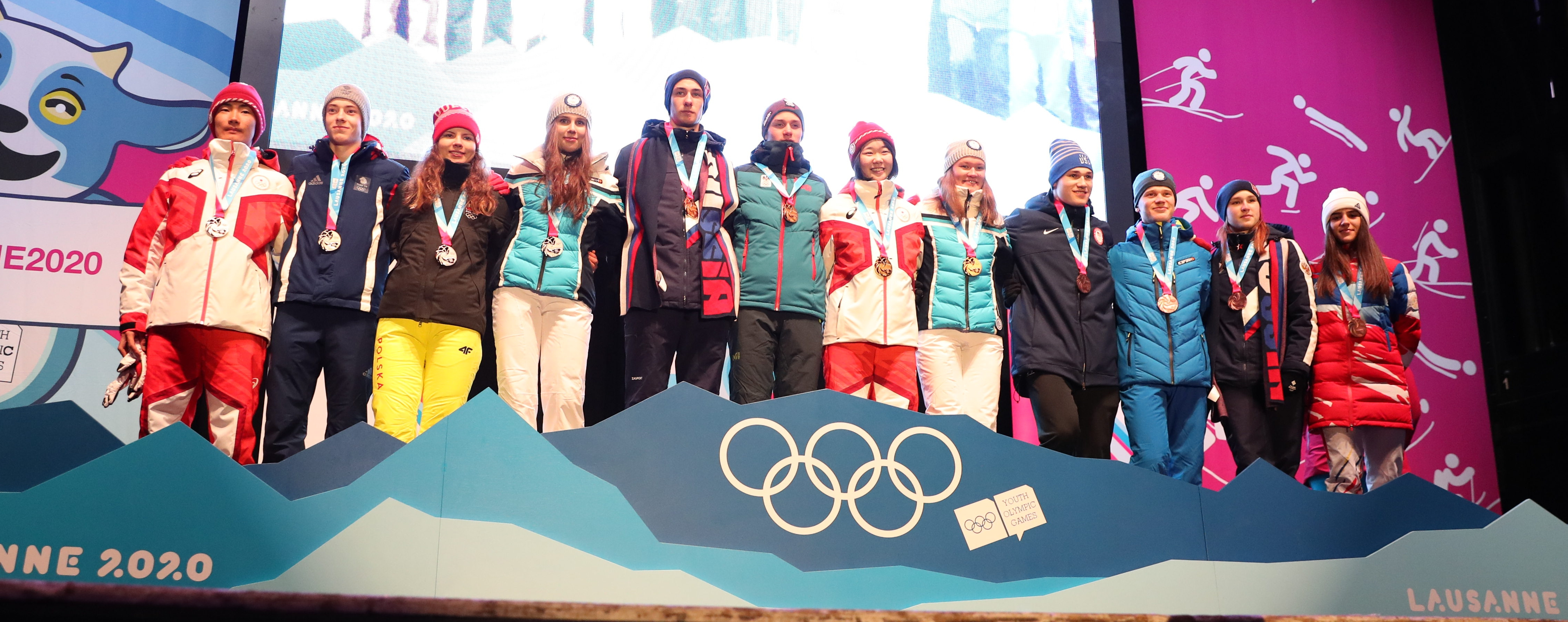 Medal Ceremony Day 7 in St. Moritz, 2020 Winter Youth Olympics in Lausanne